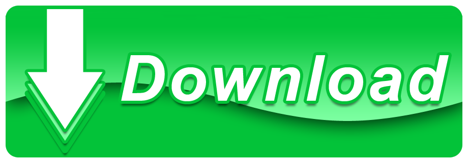 A large image for providing users with a quick visual cue to download a file.